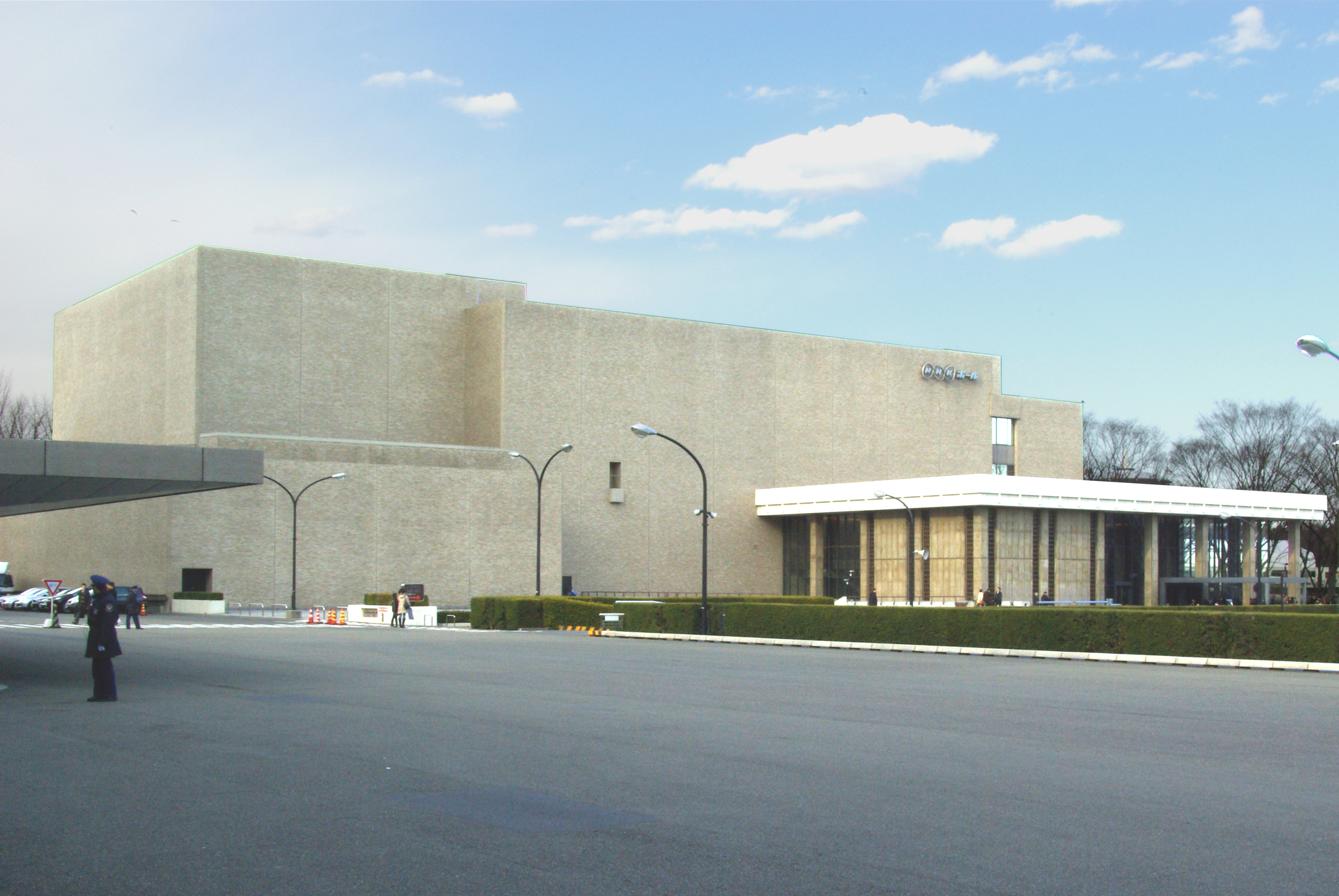 東京都渋谷区にあるNHKホール。番組公開やNHK交響楽団の定期演奏会などが行われる。